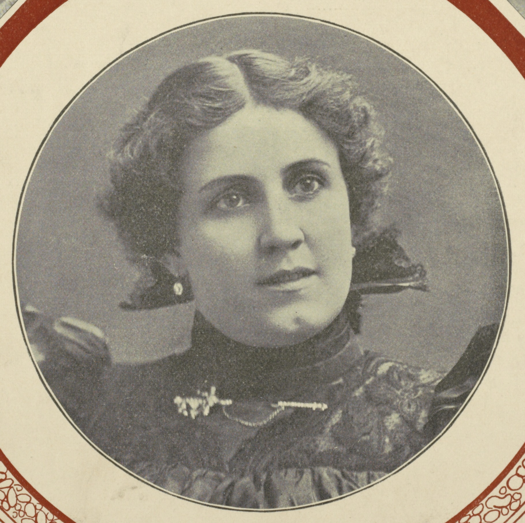 On cover: Sung with great success by Miss Ida Emerson, of the travesty team Howard & Emerson. Cover also contains a photograph captioned: Miss Ida Emerson. Photograph of Chas. K. Harris at bottom of cover and on caption title. Cover contains 3 photographs shows a man and young daughter in various poses illustrating text of song. Statement of responsibility : words and music by Chas. K. Harris.